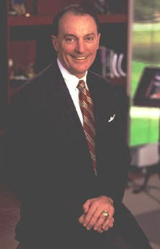 modification of a previous image I created